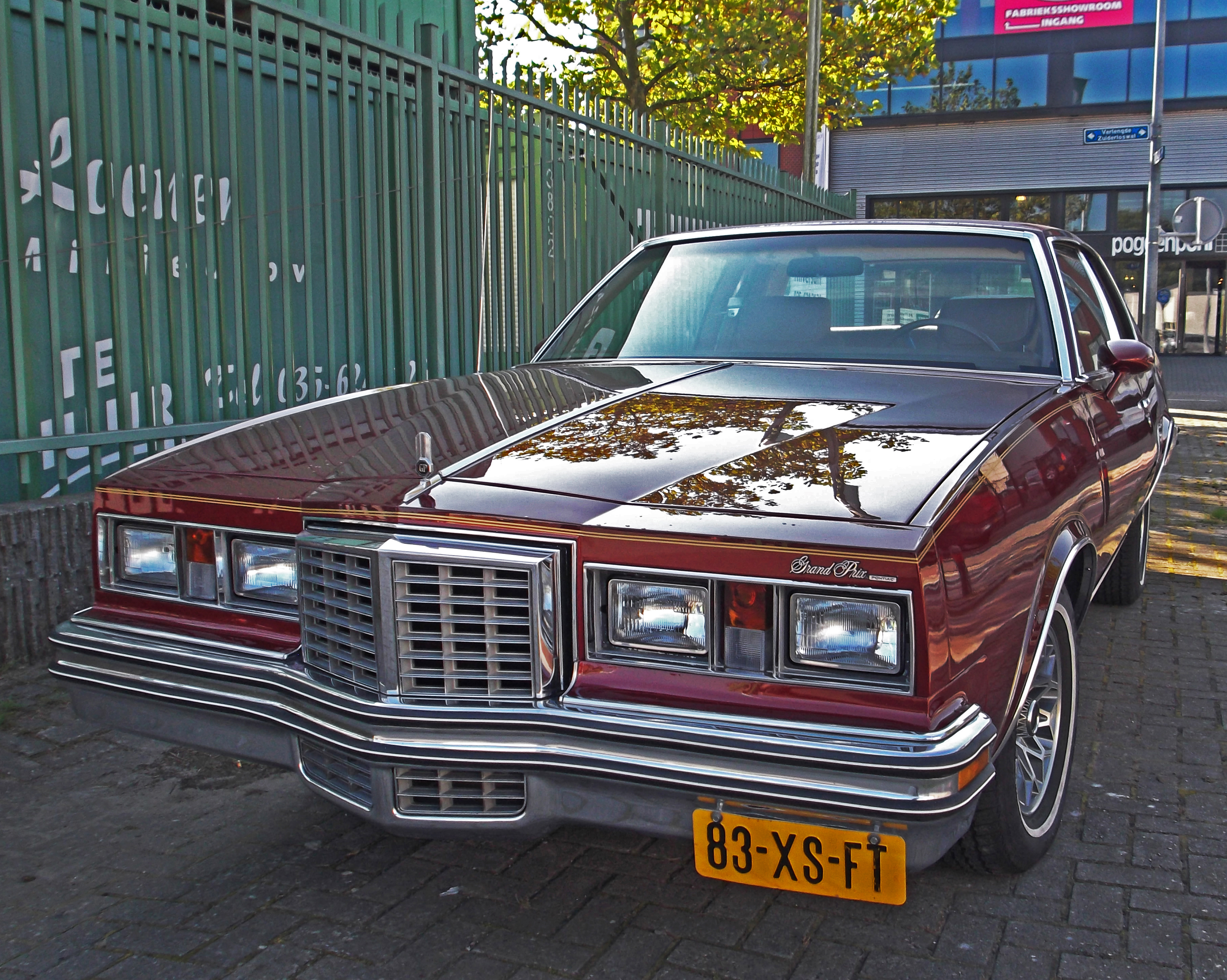 1979 Pontiac Grand Prix